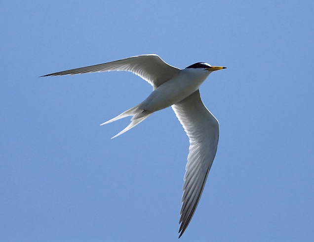 Little Tern (Sternula albifrons) lying in the sky.